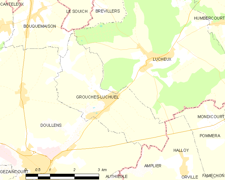 Map of French municipality Grouches-Luchuel